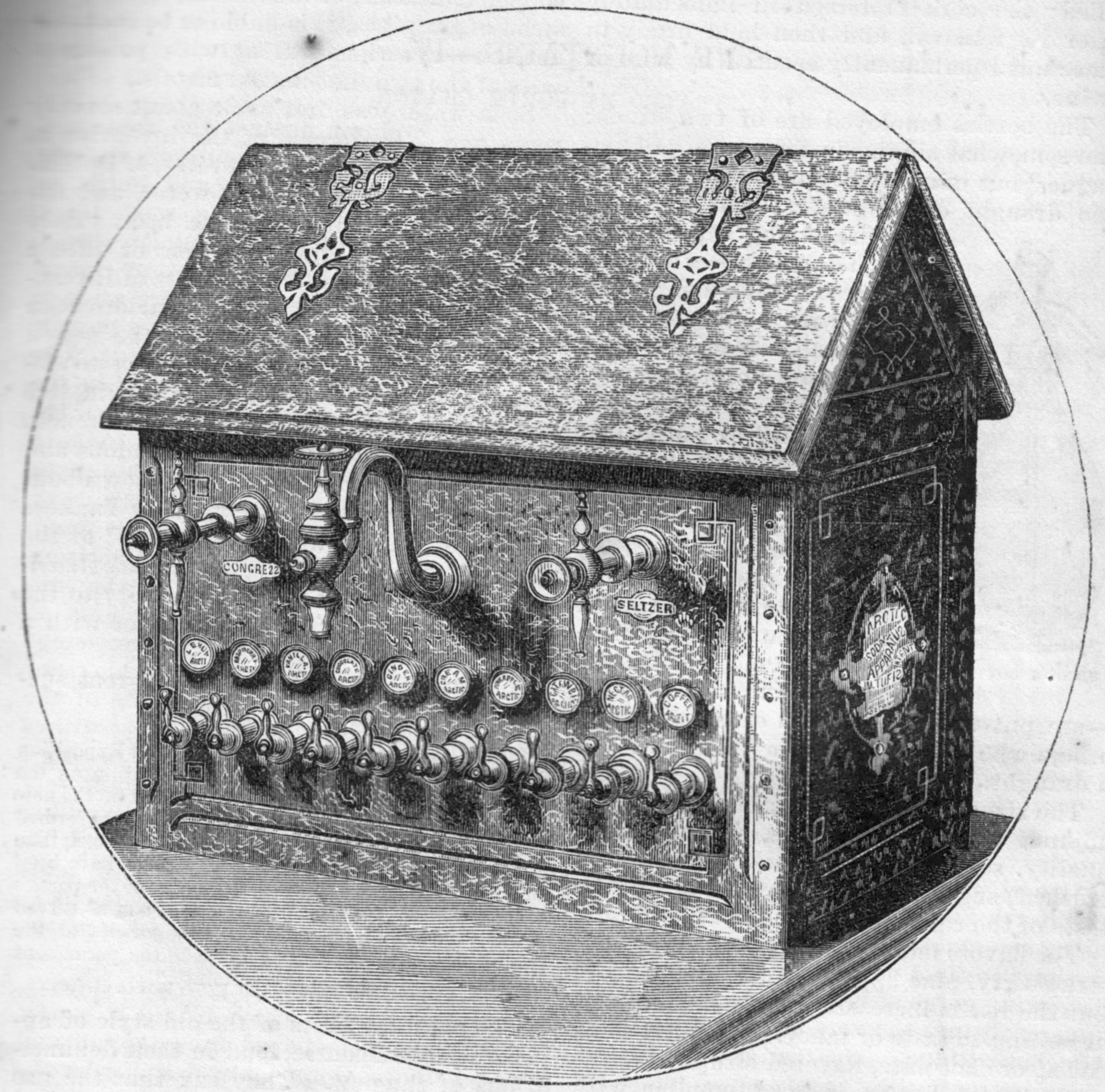 Engraving of an early marble soda fountain (referred to as a "draught stand").